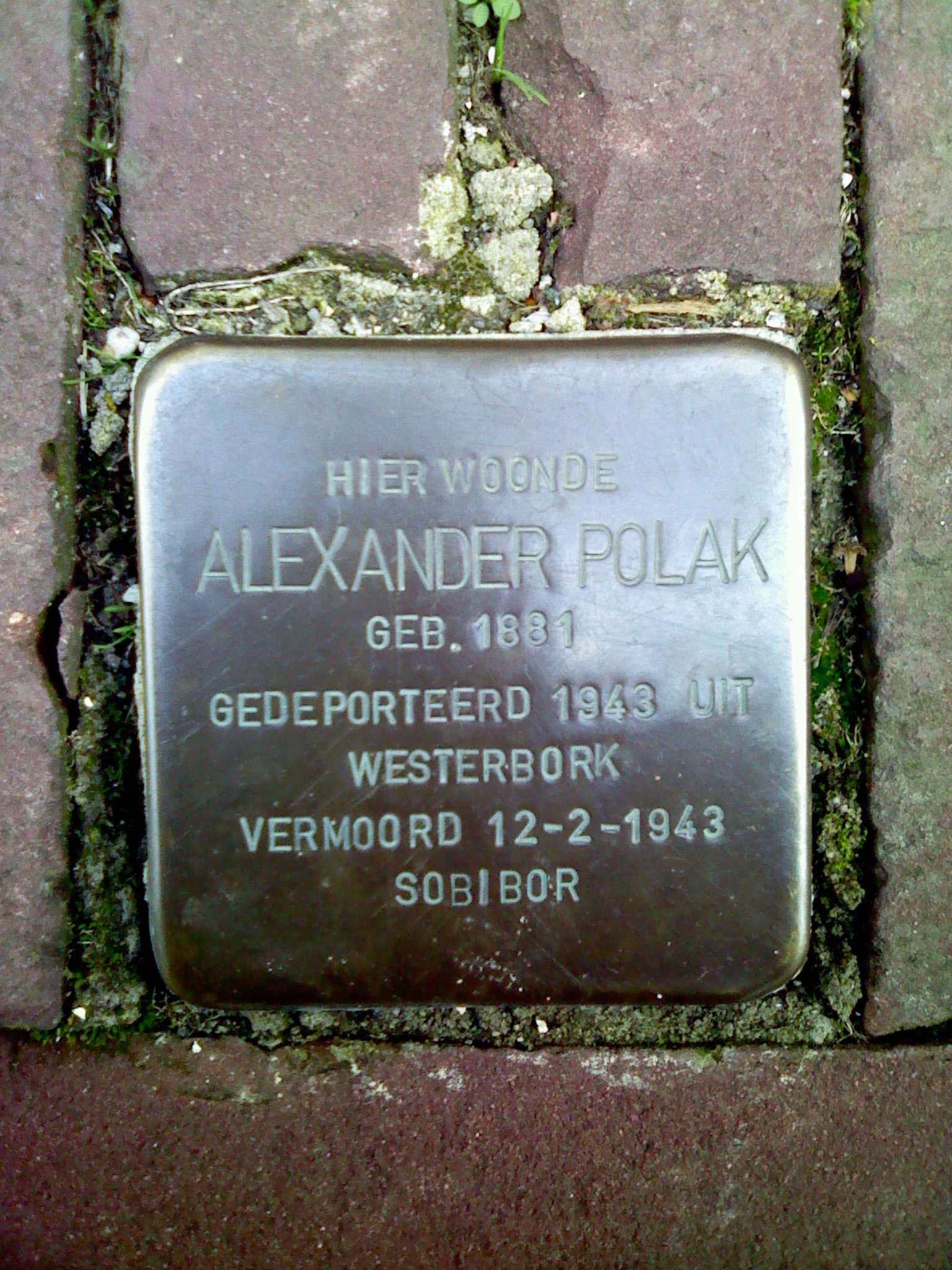 Stolperstein for Alexander Polak in Hoorn. Text translated in